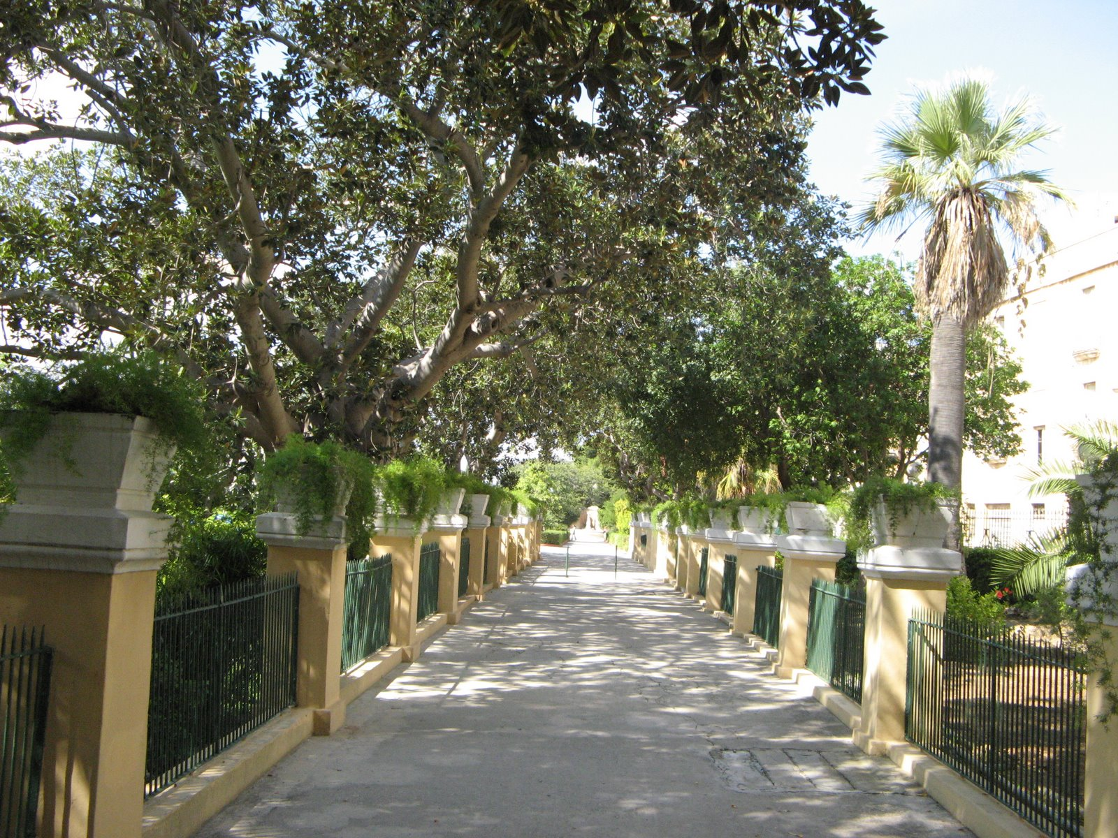 Argotti Botanical Gardens (left) at Triq Vincenzo Bugeja in Floriana, Malta. This is NOT Hastings Gardens as the file name suggests! Malti: Ġnien ta’ l-Argotti fil-Furjana, Malta.